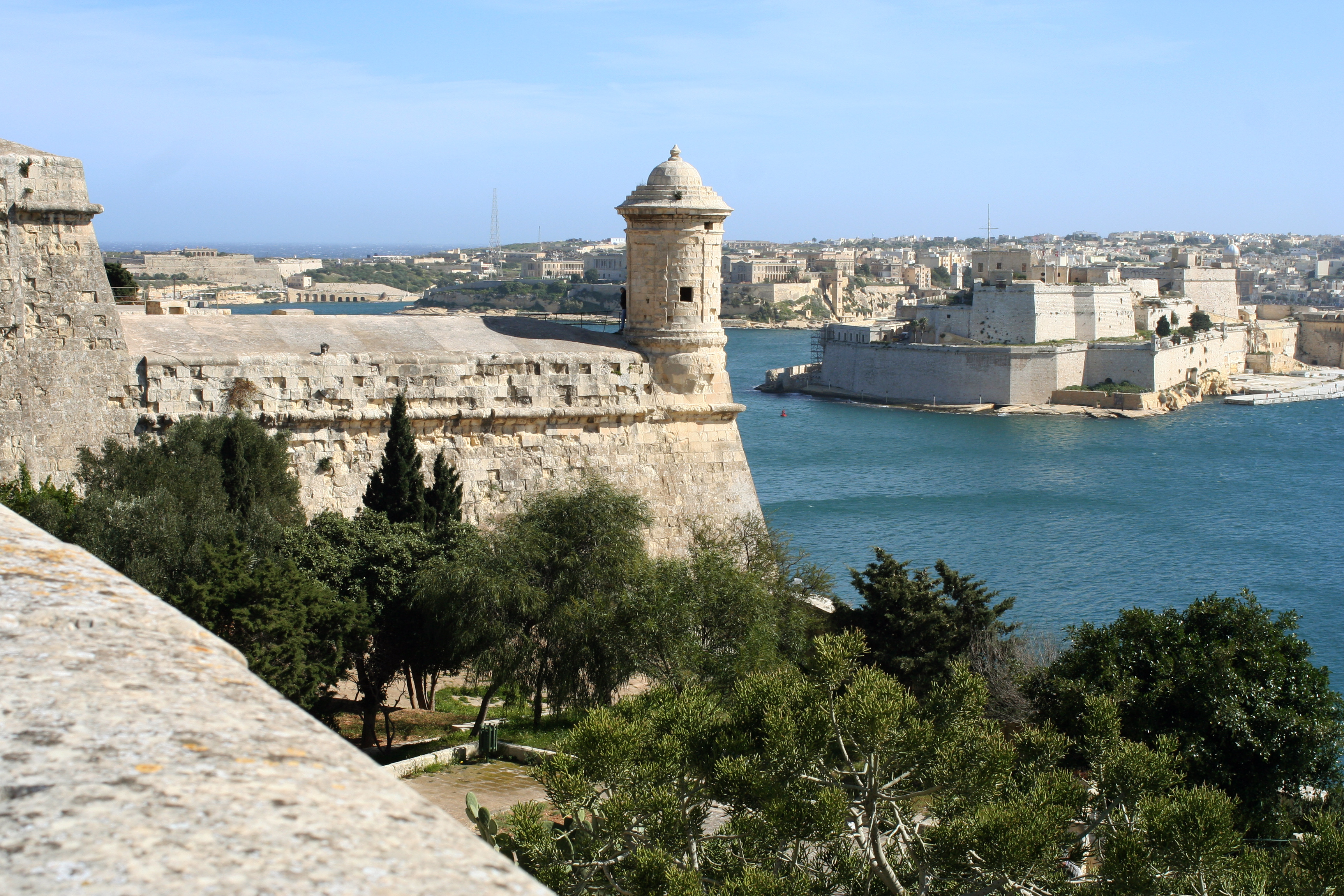 Malta, Valletta, watch tower on city wall, view on Birgu